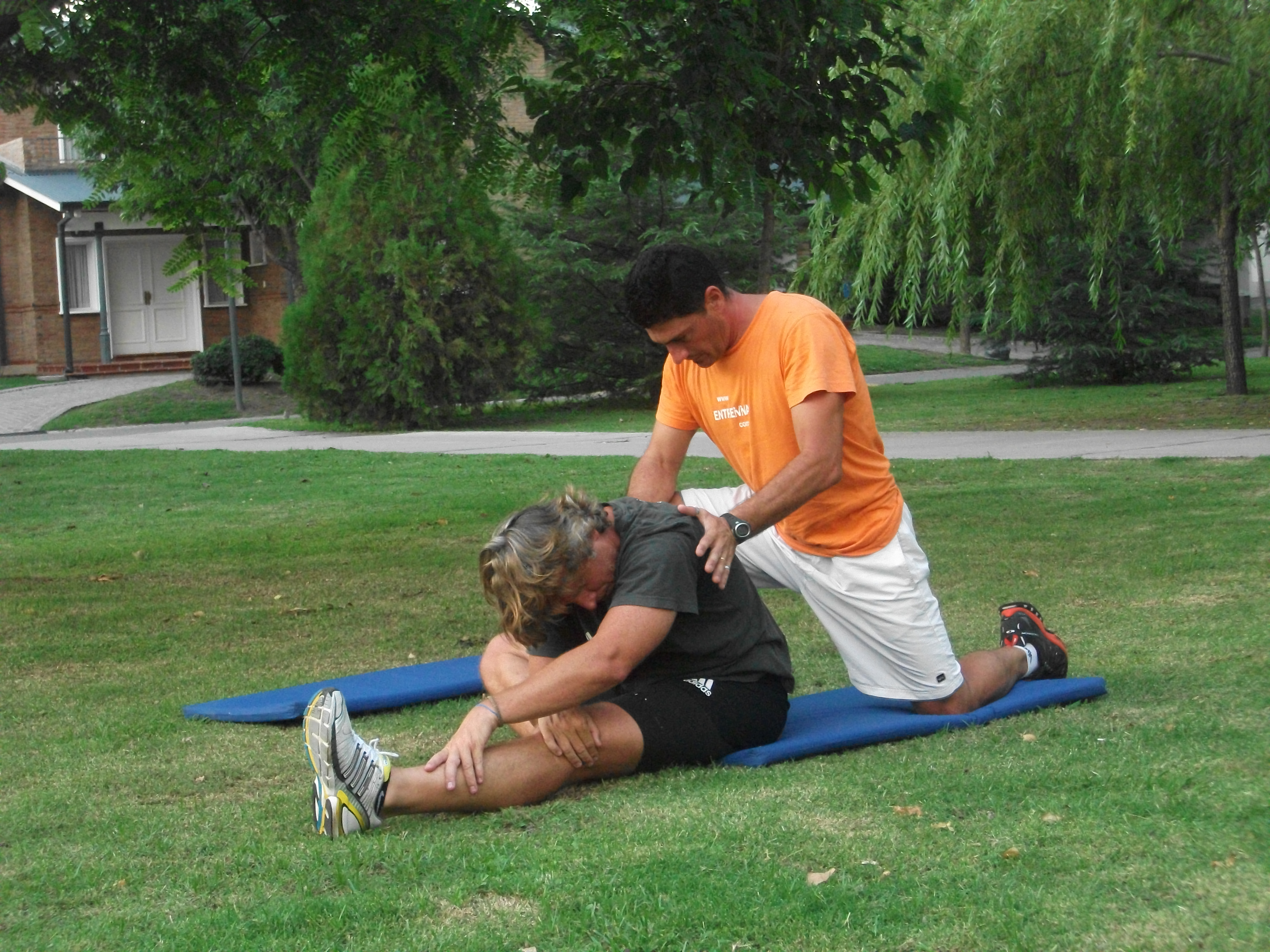 JAVIER_LAYUS_DAVID_ NALVANDIAN_